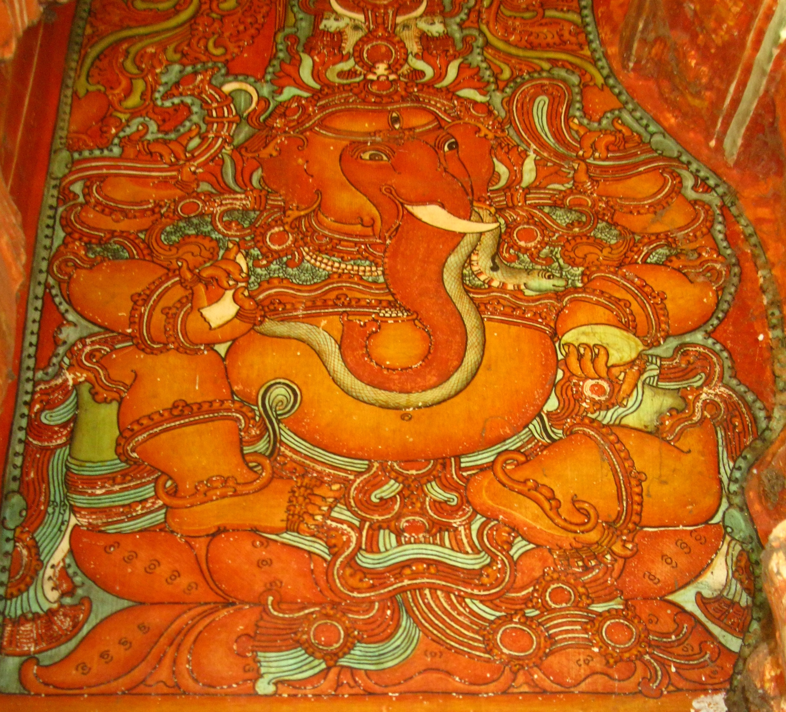 Thodeekkalam mural paintings,Kerala,Kannur